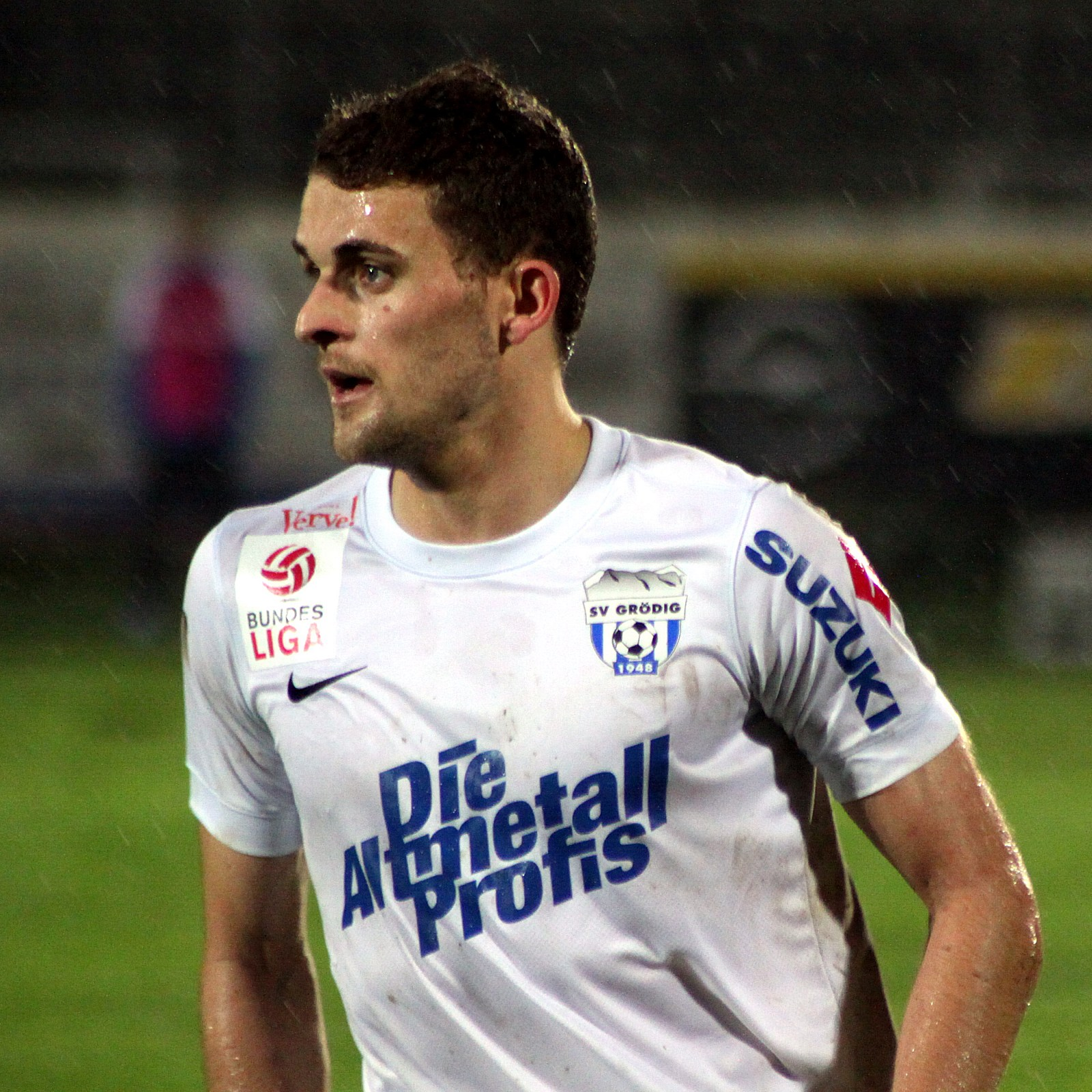 Austrian Football Bundesliga: SC Wiener Neustadt vs. SV Grödig (0:2) at 2013-11-23 in the Stadion Wiener Neustadt. – The photo shows Philipp Huspek (SV Grödig).